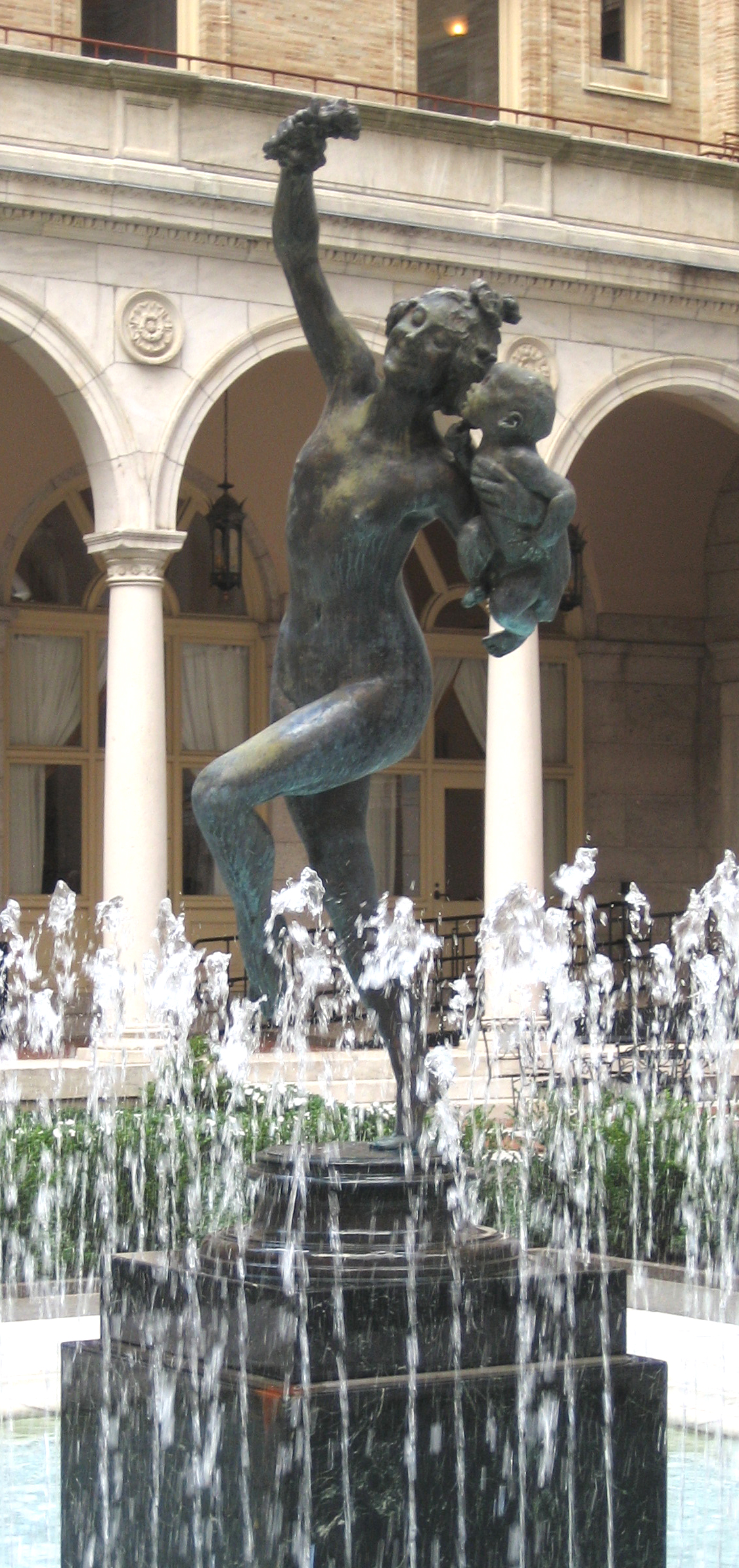 Dancing Bacchante and Infant Faun by Frederick William Macmonnies (1863–1937) in the Boston Public Library Courtyard